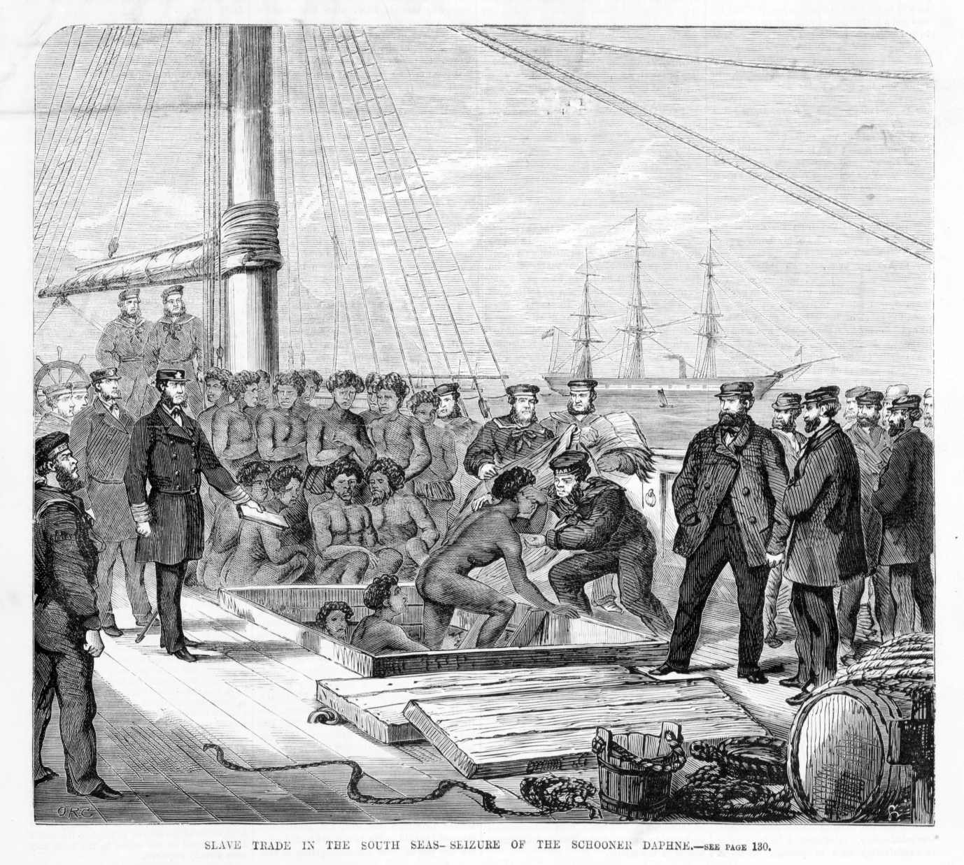 Seizure of the blackbirding schooner Daphne and its cargo by the HMS Rosario in 1869. See 1868: At 9 pounds a person; Thomas Pritchard, Ross Lewin’s trade – was it slavery, recruiting or indentured labour?, and SLAVING IN AUSTRALIAN COURTS: BLACKBIRDING CASES, 1869-1871, Journal of South Pacific Law, Volume 4 (2000).